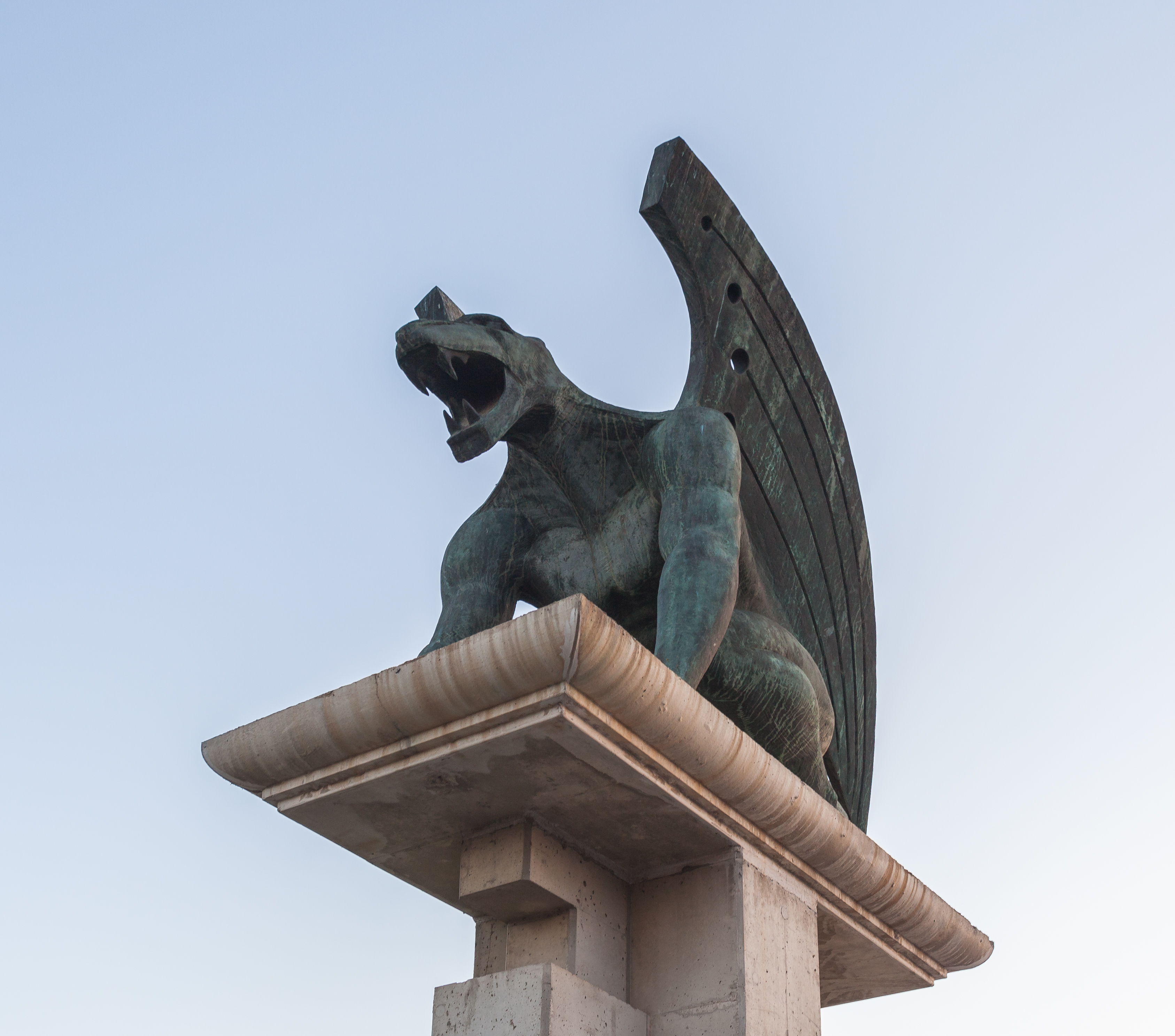 Kingdom bridge, Valencia, Spain